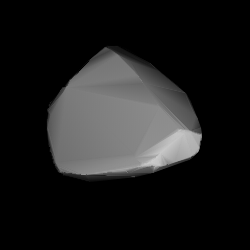 3D convex shape model of 662 Newtonia, computed using light curve inversion techniques. J. Hanuš, J. Ďurech, M. Brož, B. D. Warner (June 2011). "A study of asteroid pole-latitude distribution based on an extended set of shape models derived by the lightcurve inversion method". Astronomy and Astrophysics 530: A134. ISSN 0004-6361. arXiv